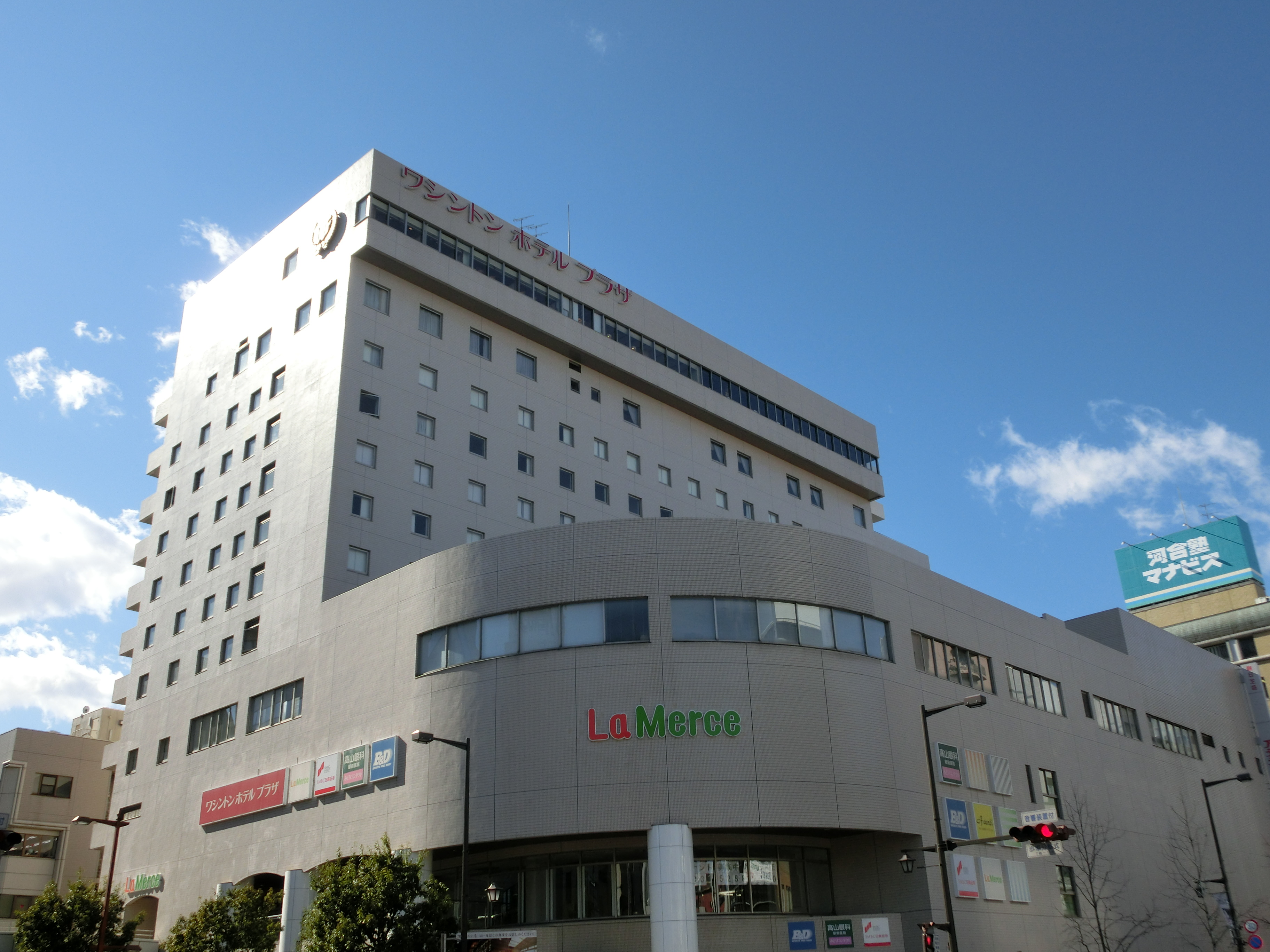 Takasaki Washington Hotel Plaza